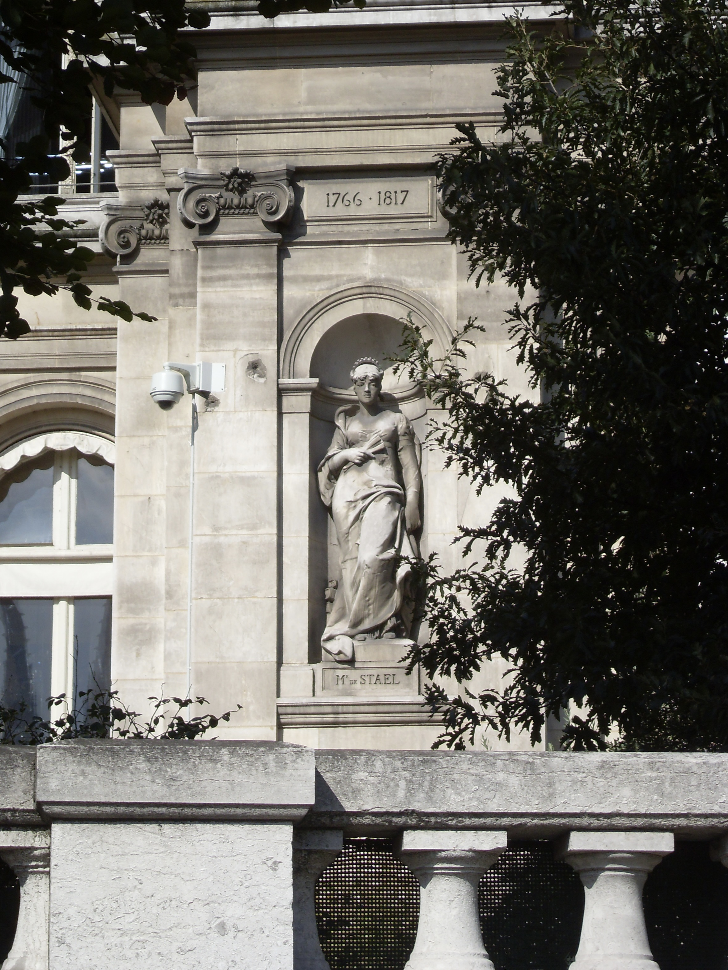 Statues of the City Hall in Paris, France